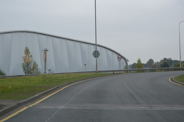 Imperial War Museum, Duxford